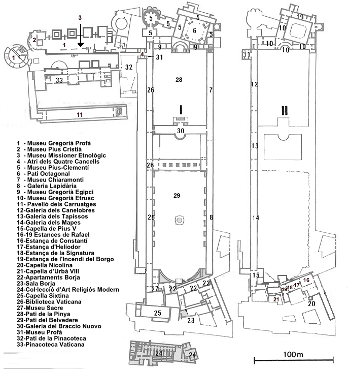 Layout of Vatican Museums